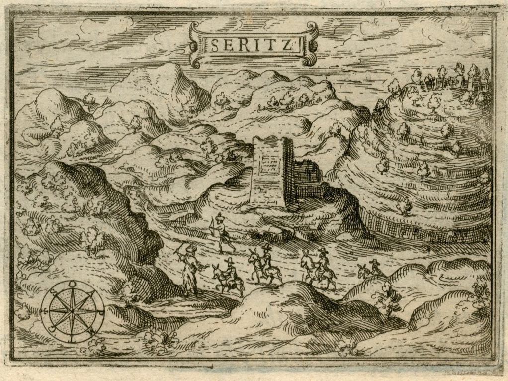 Jean Zuallart. Il devotissimo viaggio di Gerusalemme fatto, & descritto in sei libri dal Sig. Giovanni Zuallardo, Cavaliero del Santiss Sepolcro di N.S. l'anno 1586, Rome, F. Zanetti & Gia Ruffinelli, MDLXXXVII (1587)